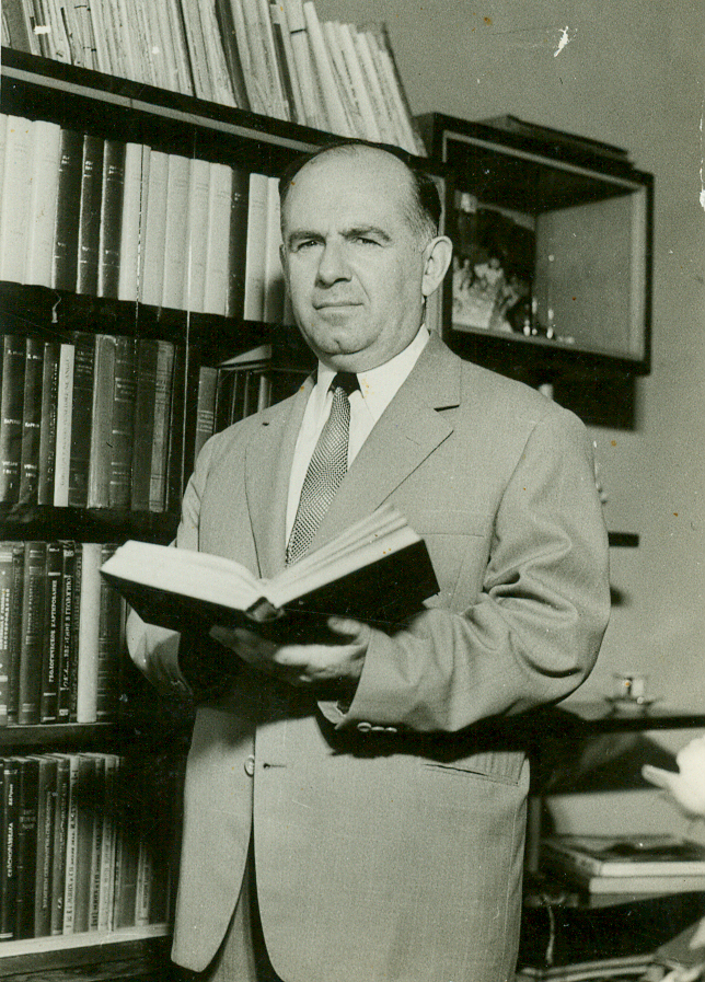 Acad. Prof. Dr. Teki Biçoku